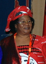 President Joyce Banda of Malawi and U.S. Secretary of State Hillary Rodham Clinton (not shown) pose for a photograph prior to their bilateral meeting in Lilongwe, Malawi, August 5, 2012. [State Department photo/ Public Domain]